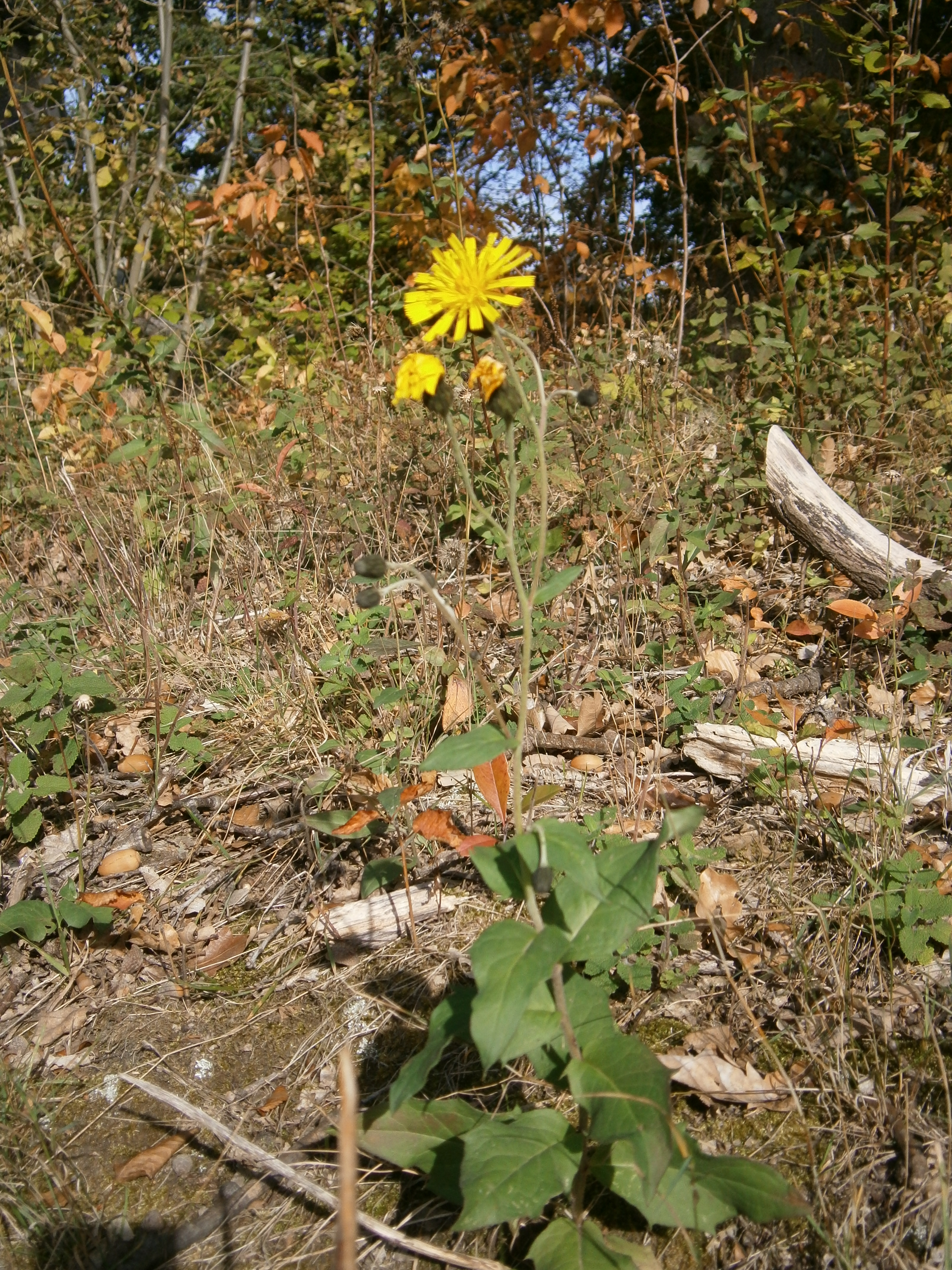 Hieracium sabaudum